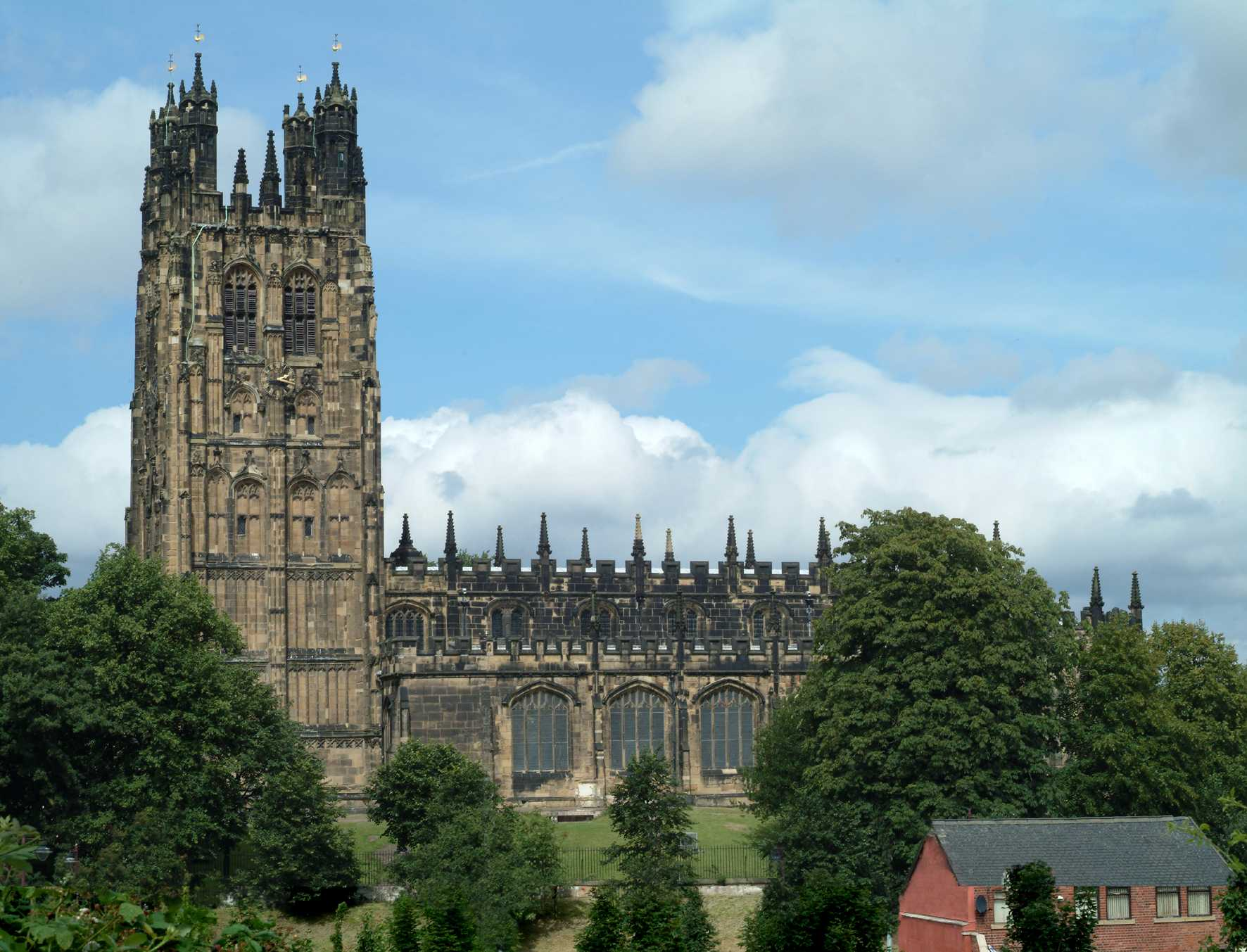 A photo of Wrexham's St Giles church.